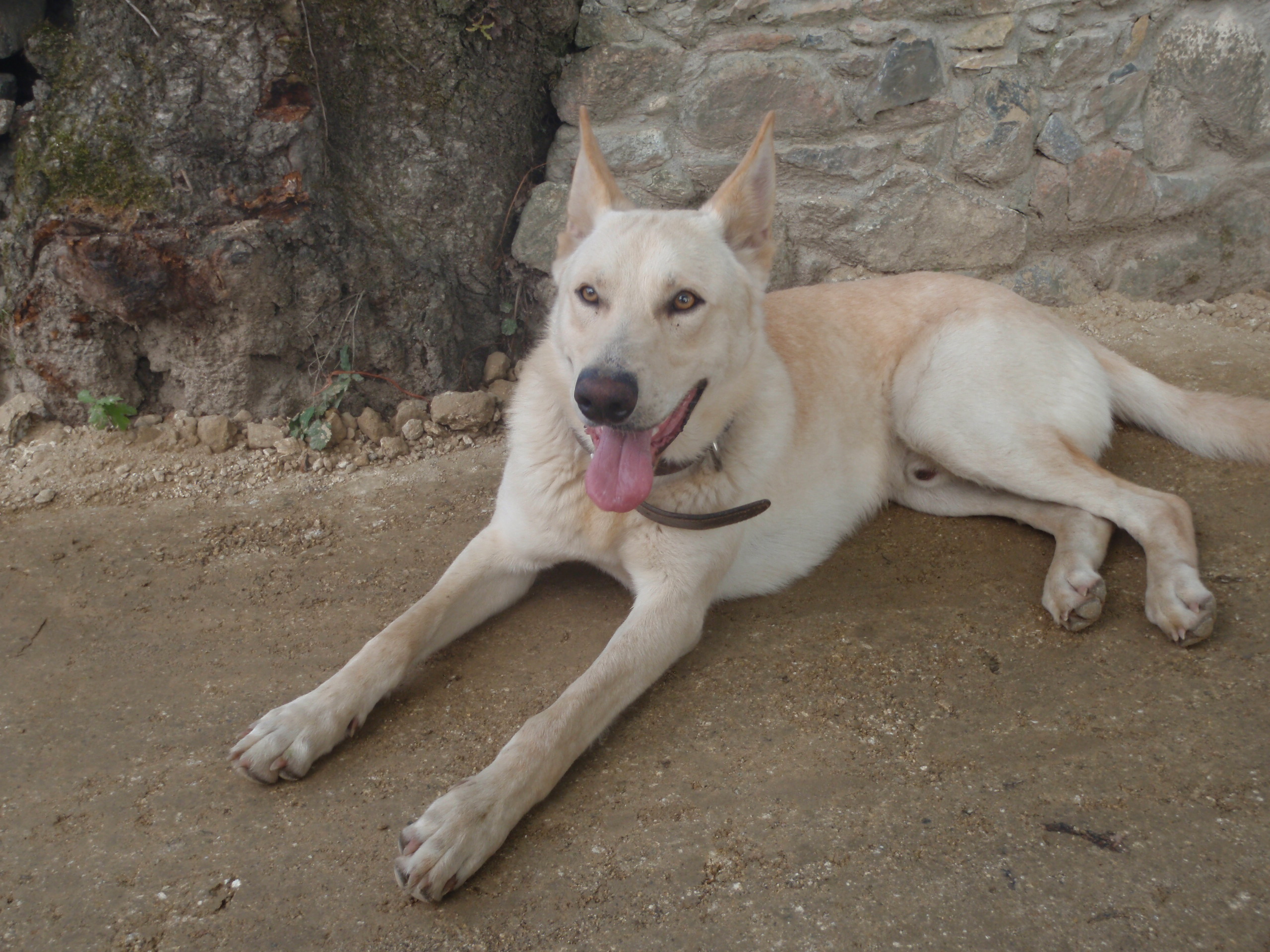 can de palleiro, celtic shepherd